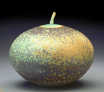 "Mother", crystalline glaze by John Tilton